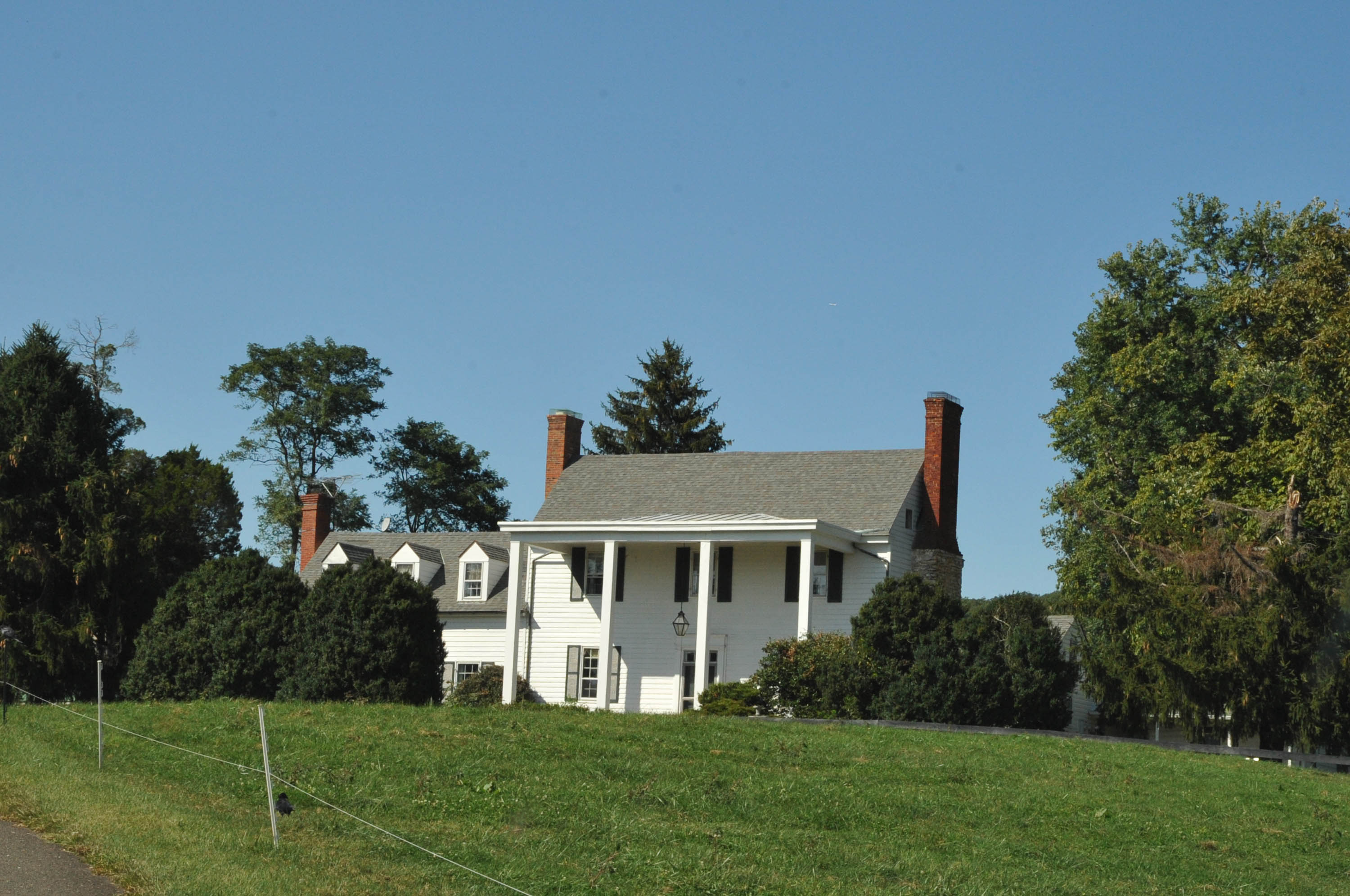 FAUQUIER FARM; 1825 FEDERAL STYLE BUILDING ALTHOUGH SOME EVIDENCE DATES IT TO 1800